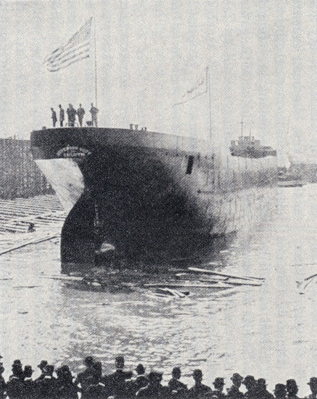 Original inscription: "Superior City -- After Launching. First vessel launched from the Lorain shipyard of the Cleveland Ship Building Co."